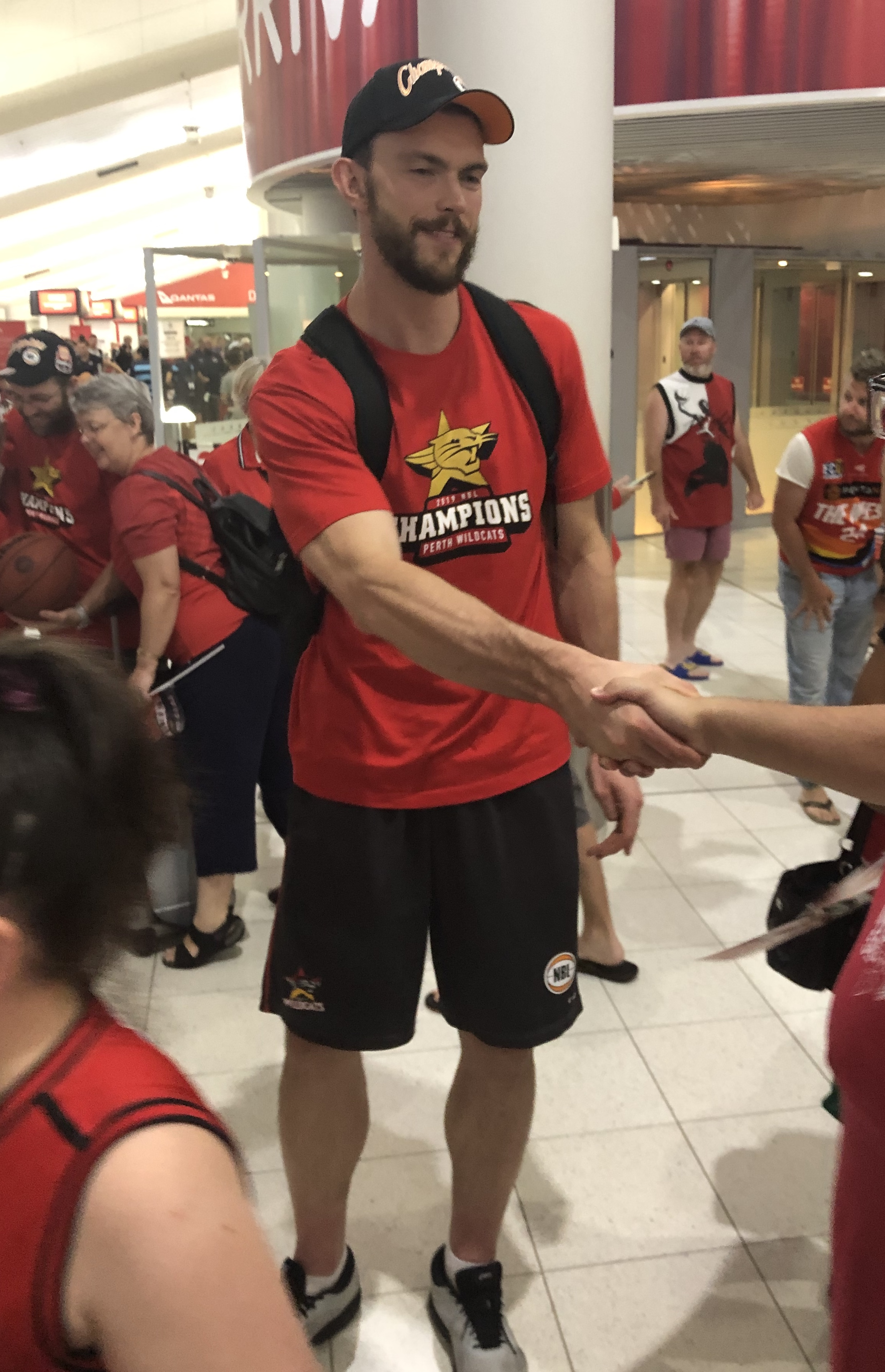 Angus Brandt of the Perth Wildcats